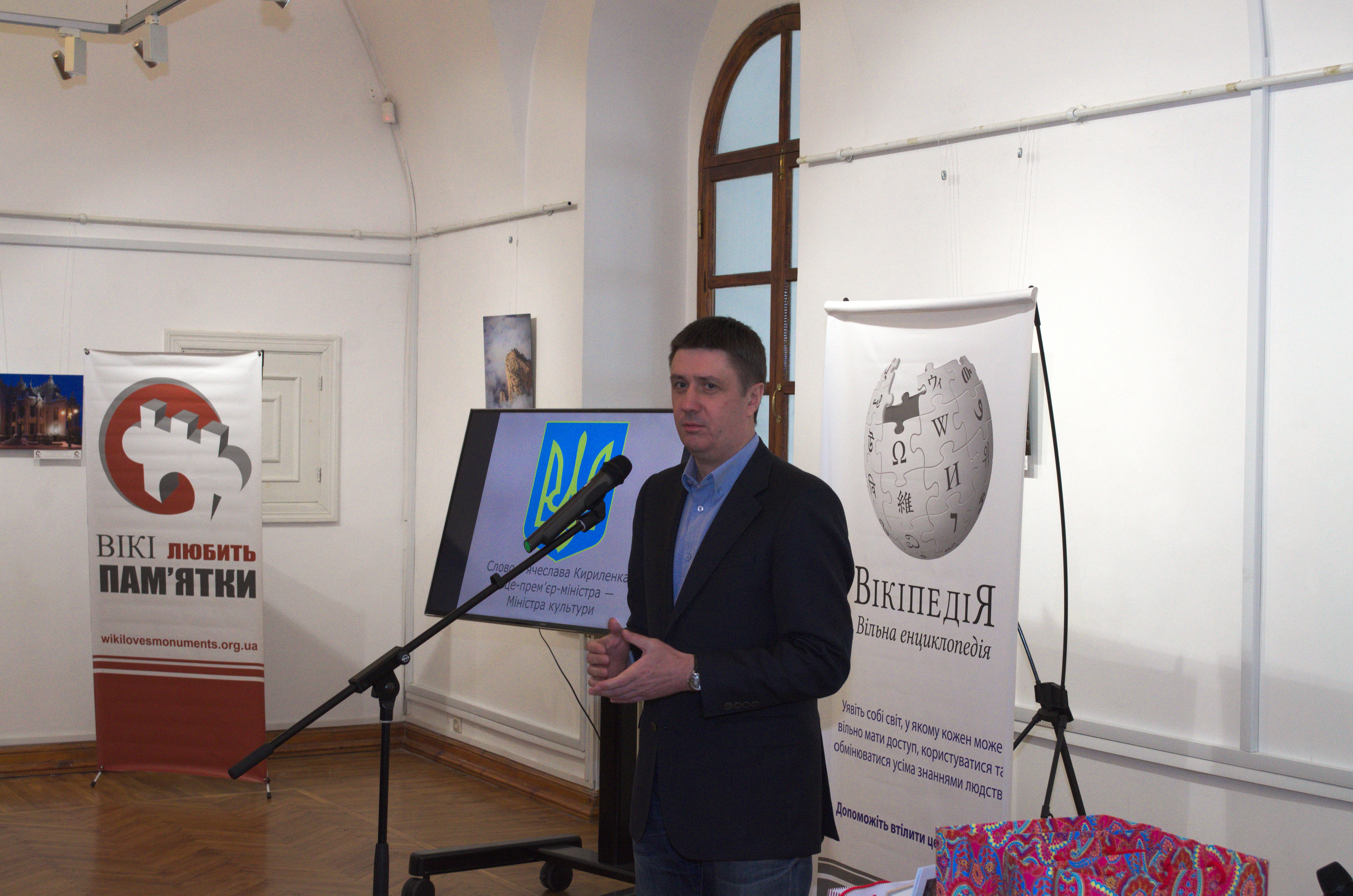 Vyacheslav Kyrylenko on Wikipedia Loves Monuments Awards in Ukraine